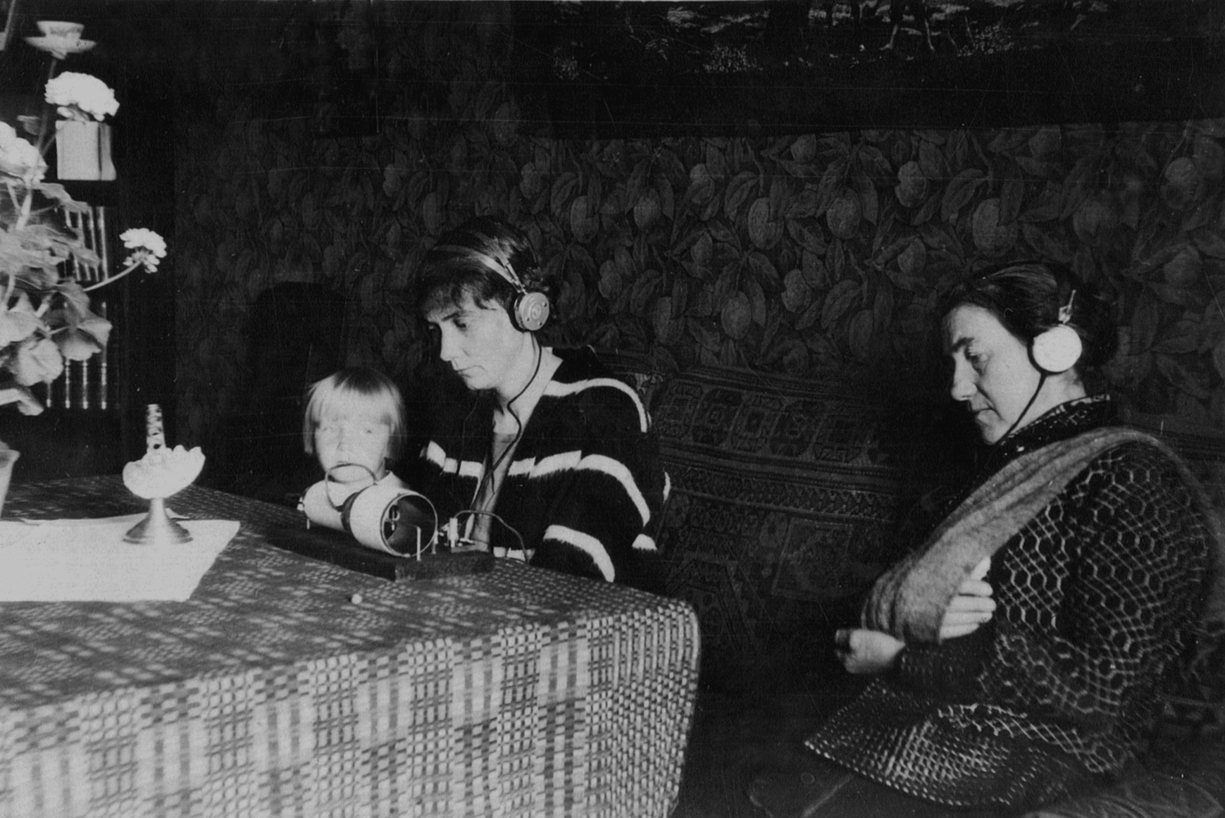 Two women with headphones listening to a crystal radio while a child looks on.